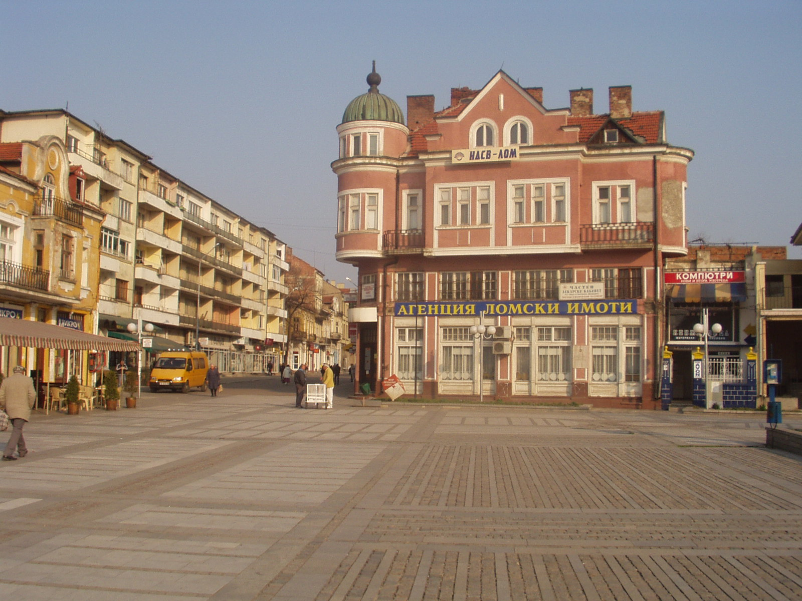 Main square of Lom, Bulgaria.